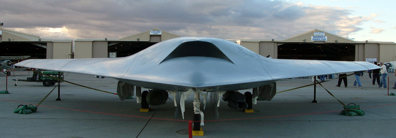 Boeing's mockup of the X-45C UCAV shown on static display at Nellis AFB's 2004 "Aviation Nation" airshow.